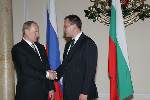 SOFIA. With Prime Minister of Bulgaria Sergei Stanishev.